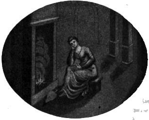 Cendrillon